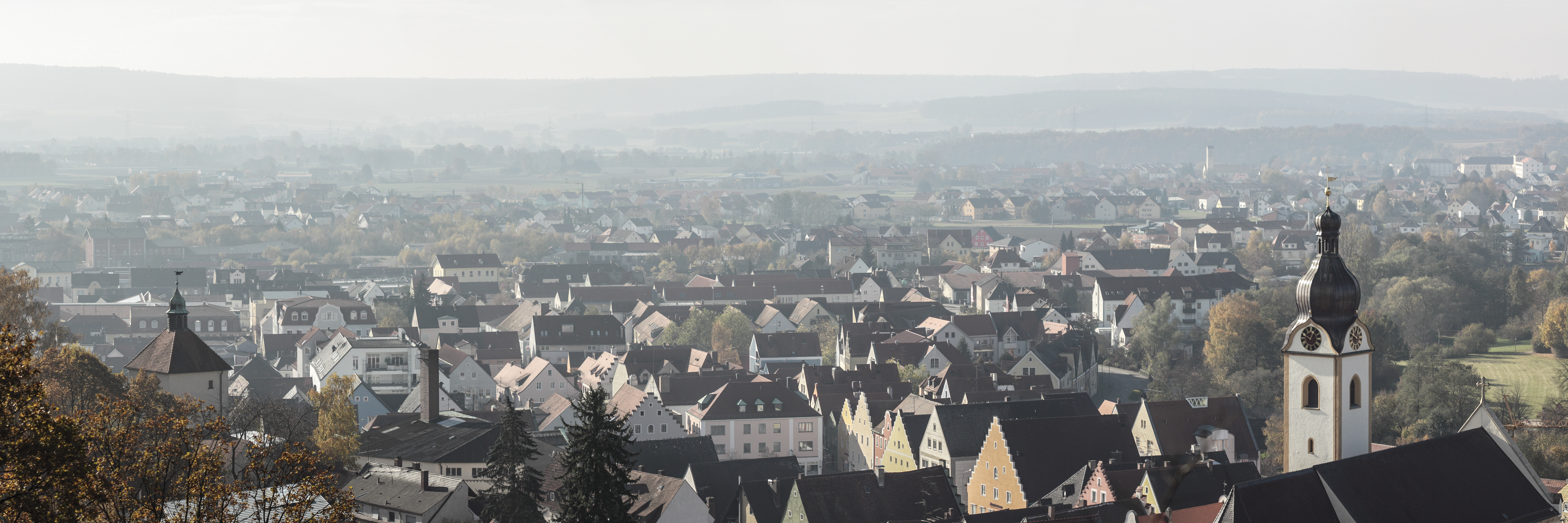 foggy morning and autumn in Schwandorf, Upper Palatinate